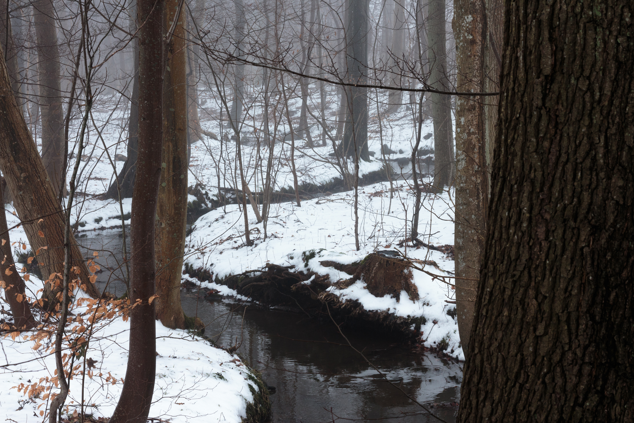 The small stream "Fiskbæk" at Pøel Forest south of Malling in Denmark.